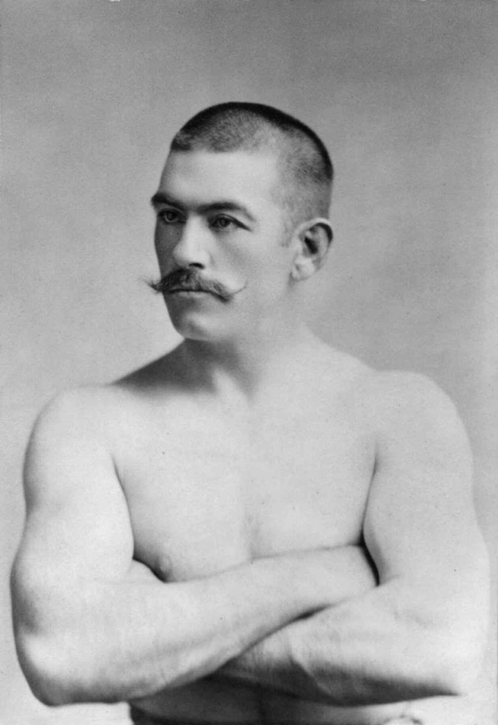 American boxer John Lawrence Sullivan